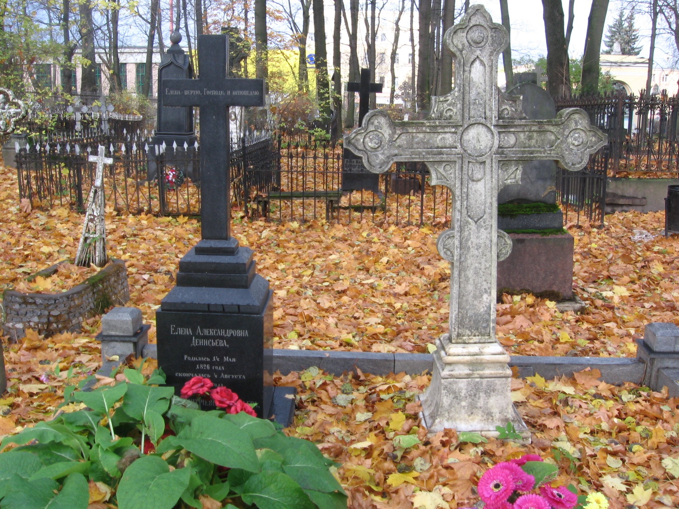 Grave of Fyodor Fyodorovich Tyutchev and Elena Denisyeva